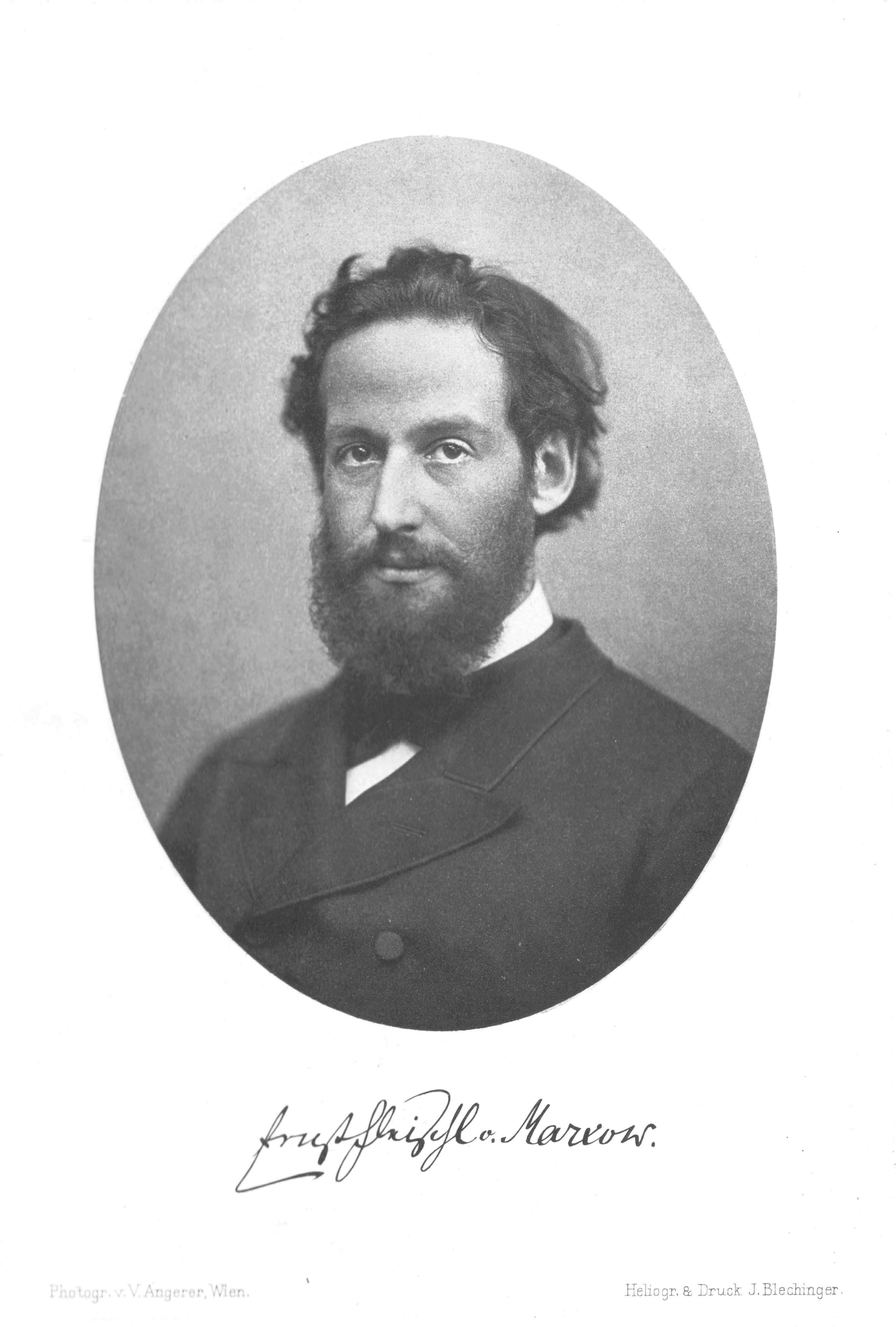 Ernst Fleischl von Marxow